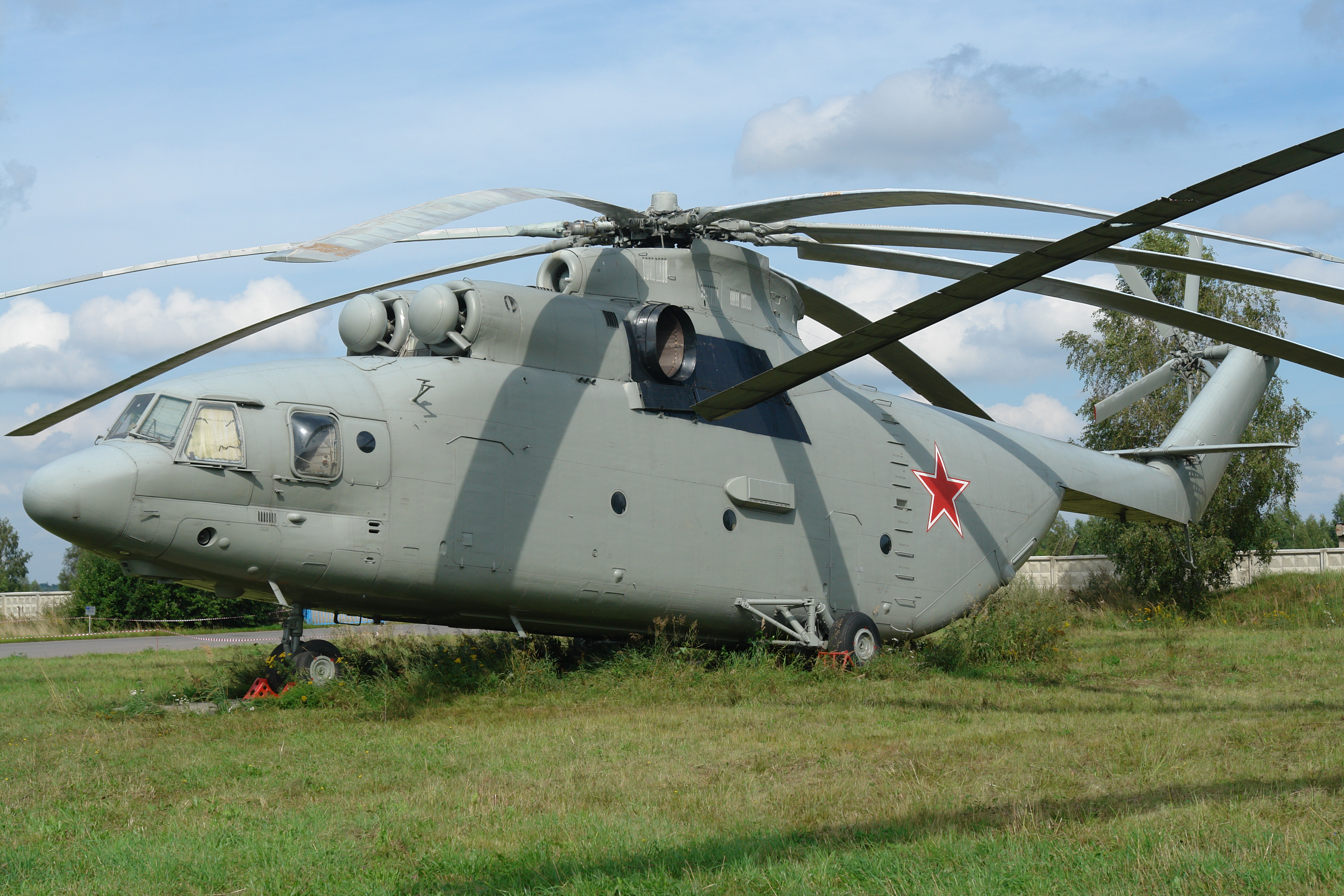 MIL Mi-26 (Halo) at Monino Central Air Force Museum (Moscow)